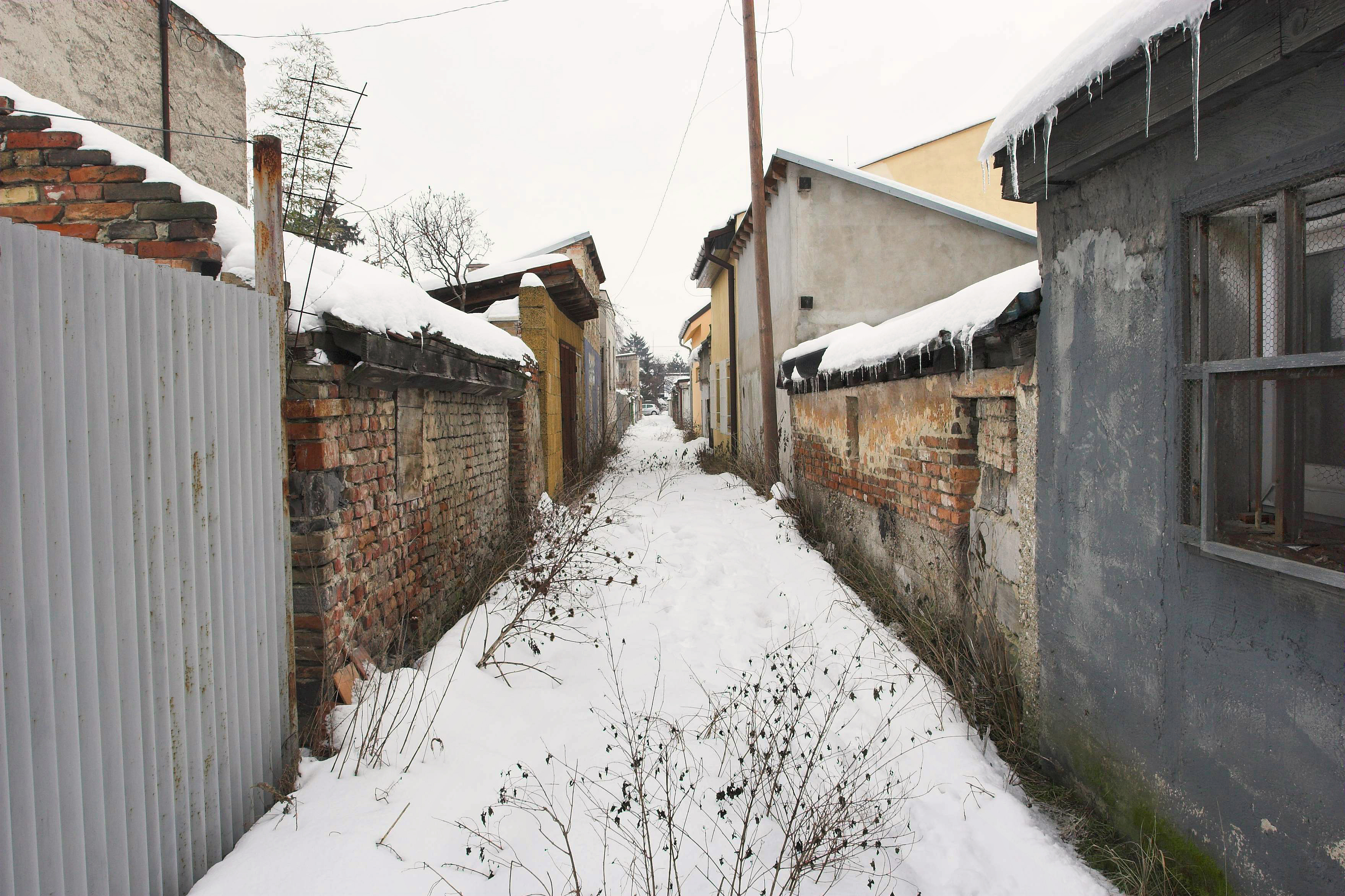 One of the sideway streets in between house parcels in Trnavka.